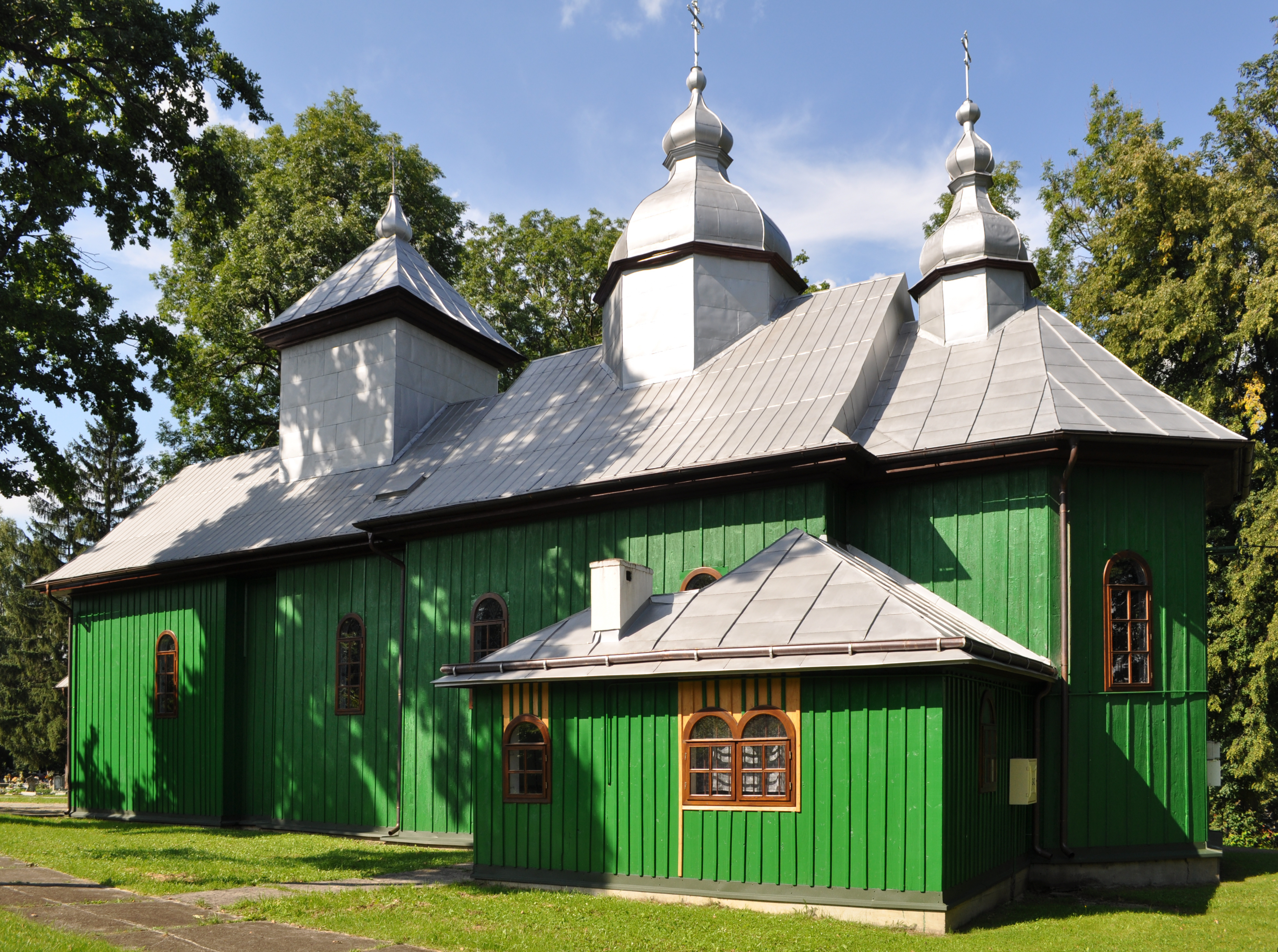 Church in Kostarowce